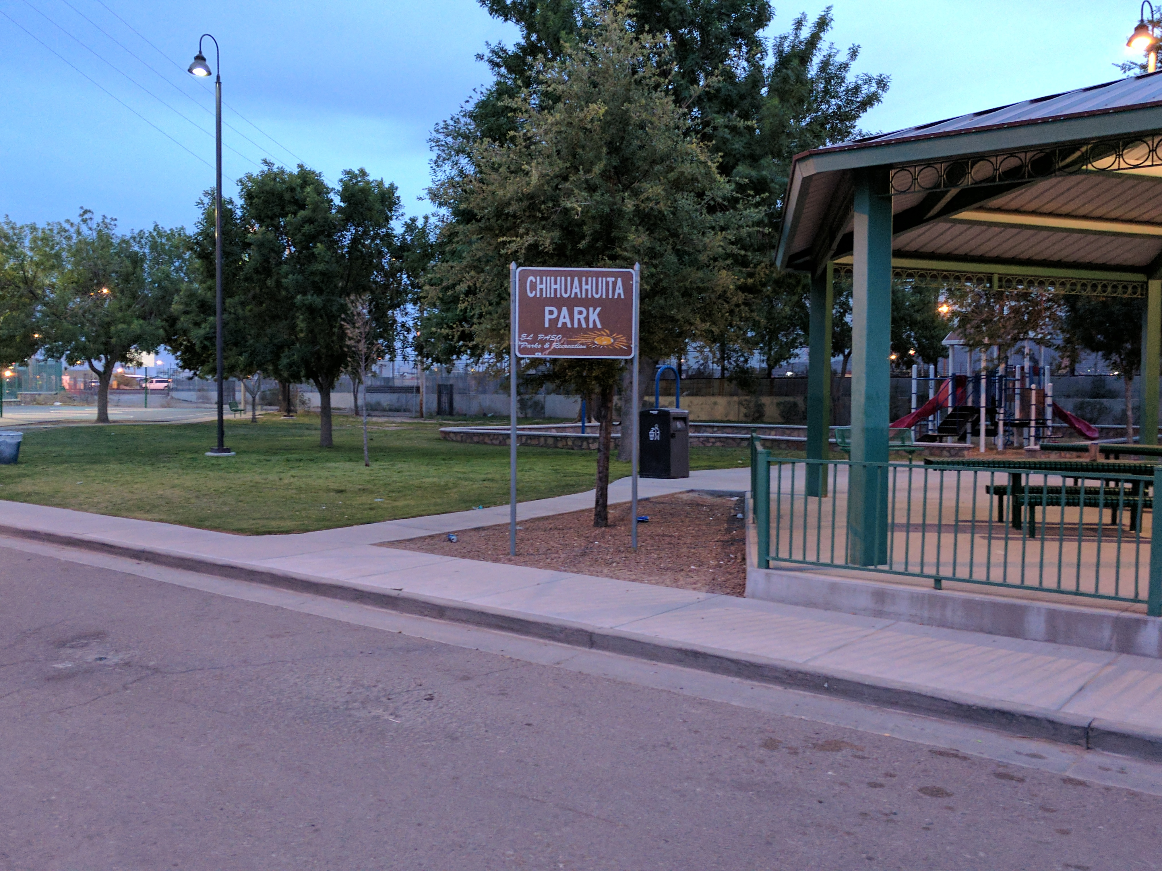 Chihuahuita, a neighborhood in El Paso. April of 2017.